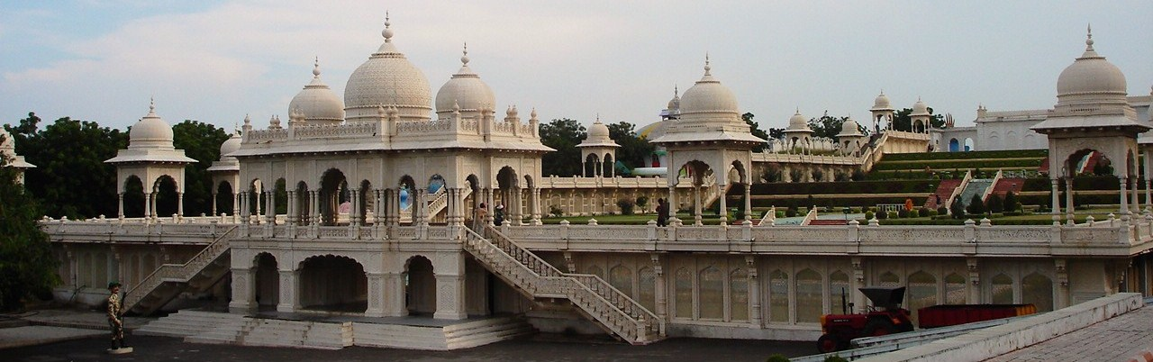 The Vrindavan garden setting in Ramoji Film city Hyderabad